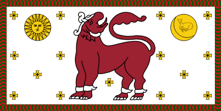 Flag of the North Western Province